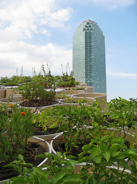 Public Farm 1 at PS1 Contemporary Art Center, Long Island City, NY 2008